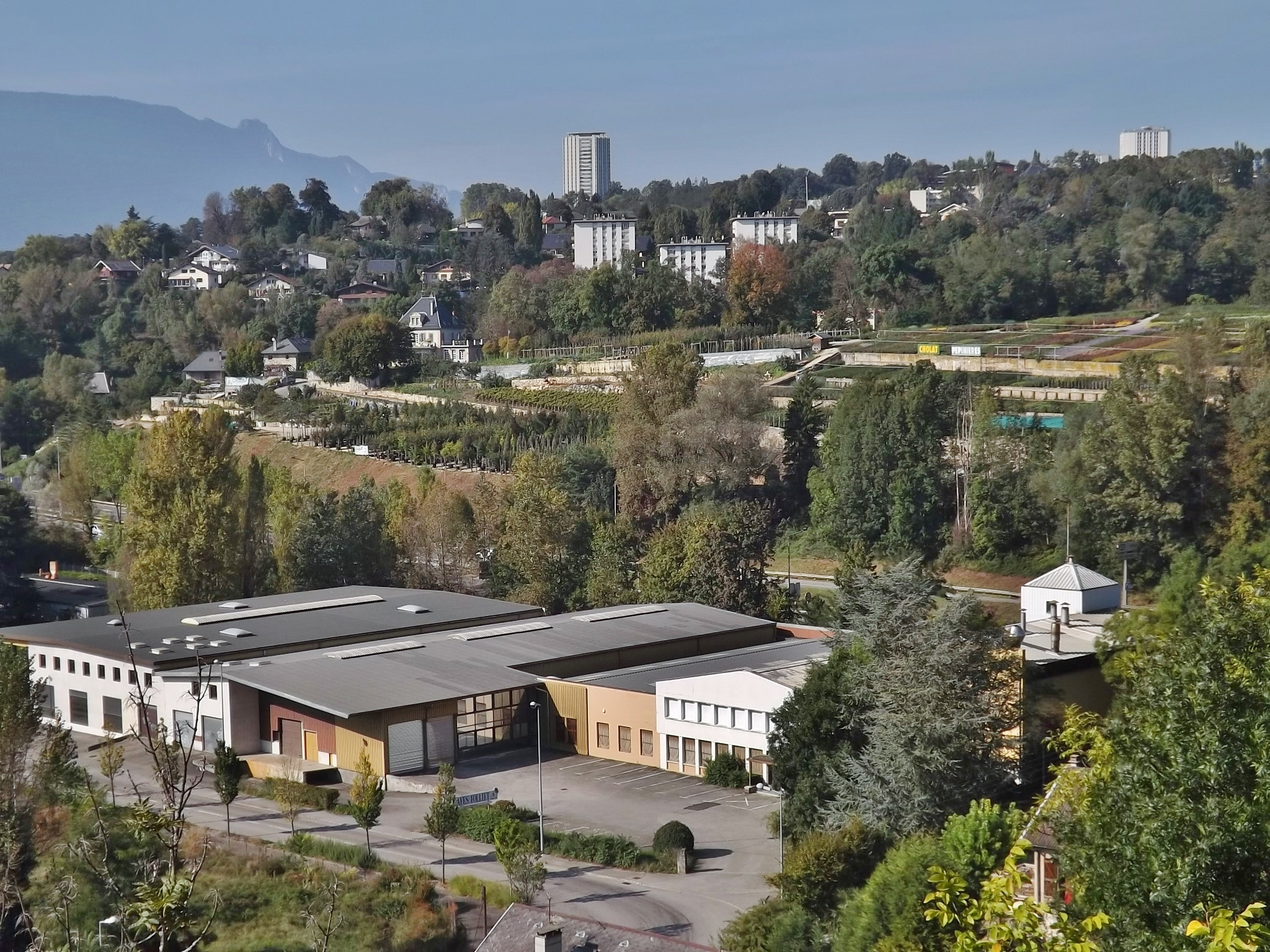 Panoramic sight on a Cafés Folliet coffee maker production site (foreground), Cholat Jardins/Pépinières plants nursery and the Boisse hill (background), in Chambéry, Savoie, France.